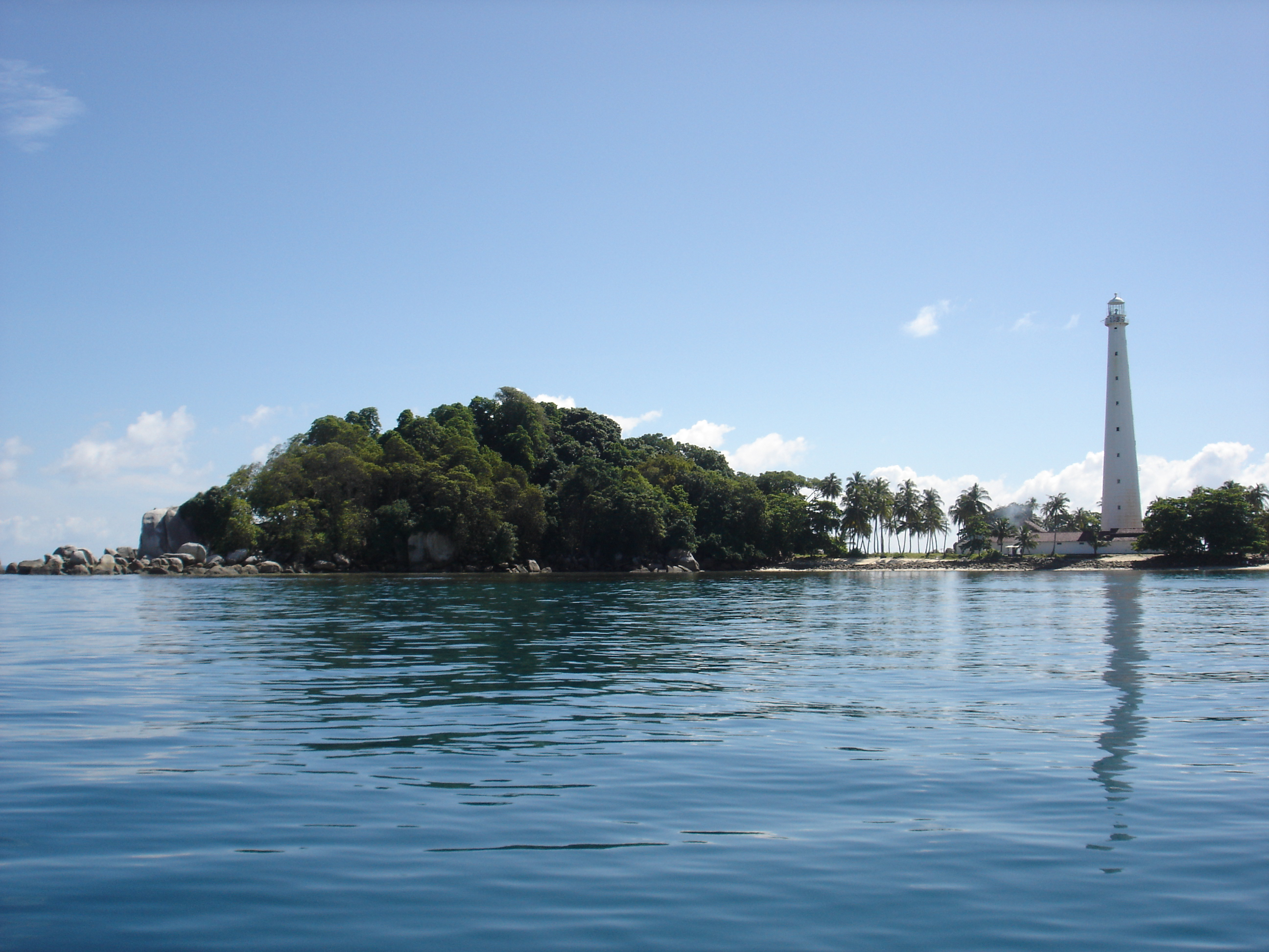 Scenery of Lengkuas Island of The Bangka Belitung Islands Province, Indonesia